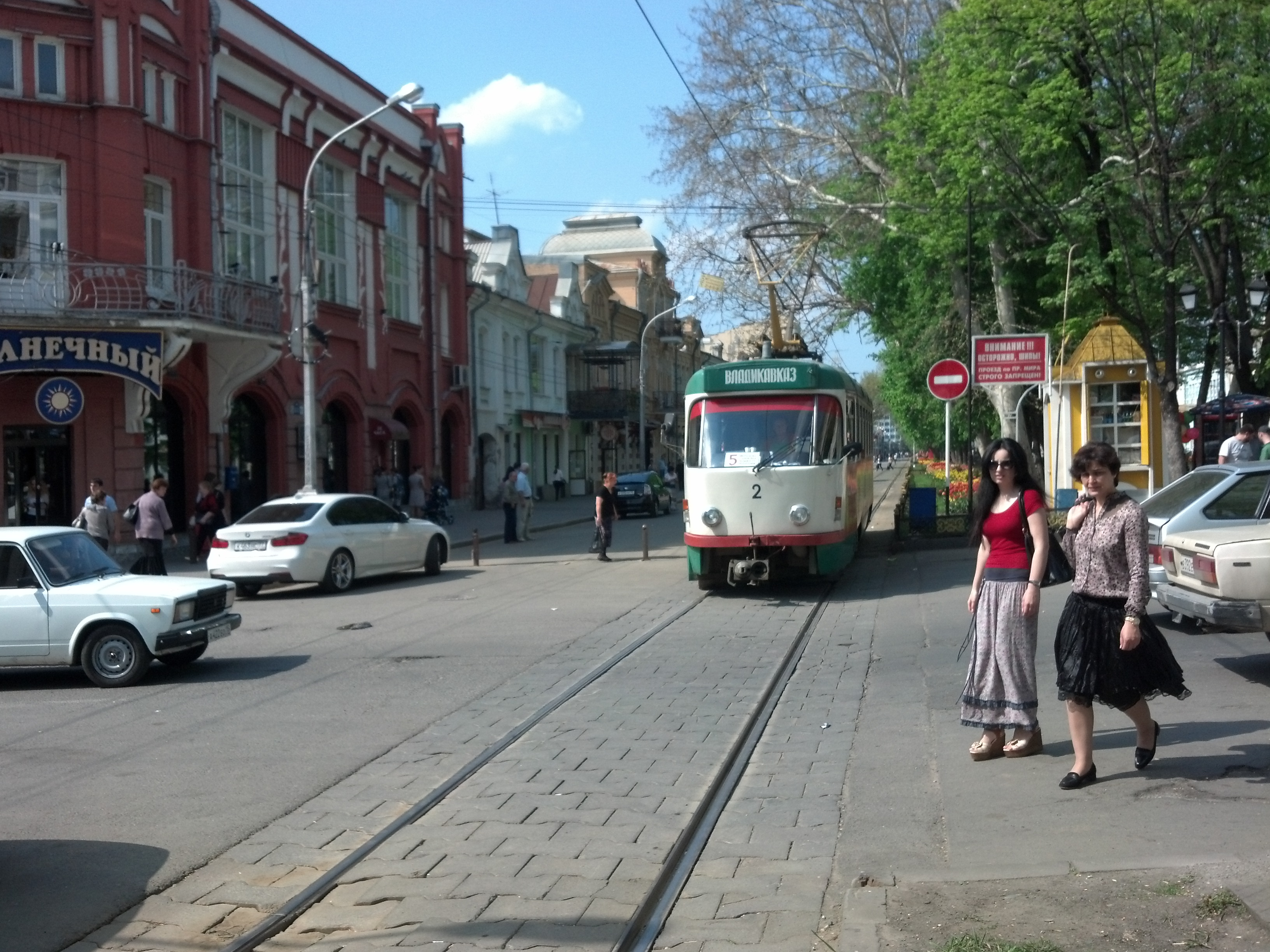 Tram on a pedestrianised Mira avenue in Vladikavkaz, North Ossetia, Russia